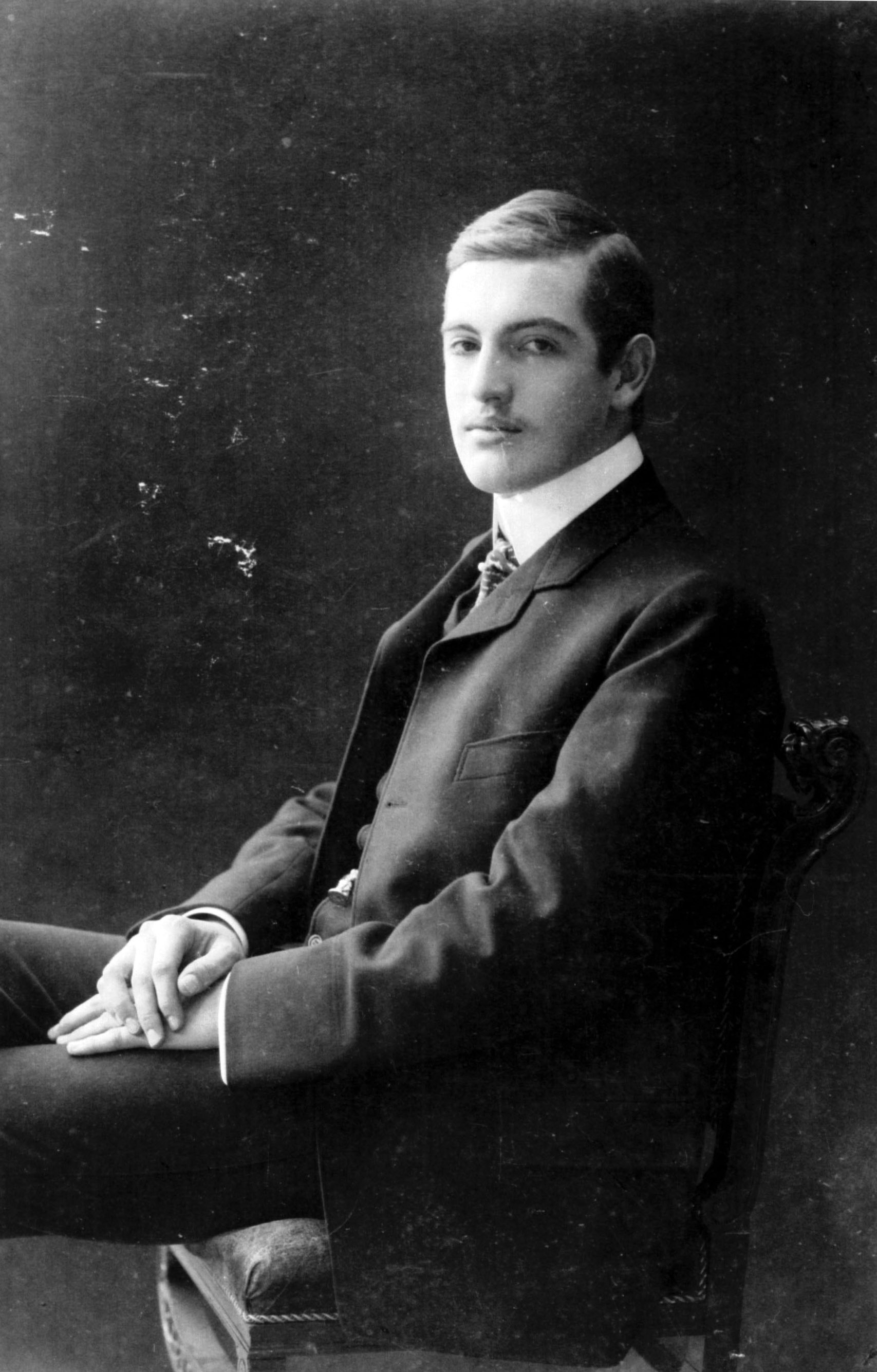 Date/place:17/10 1905, Christiania Subject:Fridtjof Backer Gröndahl Medium: photographic positive, B&W Original belongs to the Edvard Grieg Archives at Bergen Public Library Original reference: EGM0018